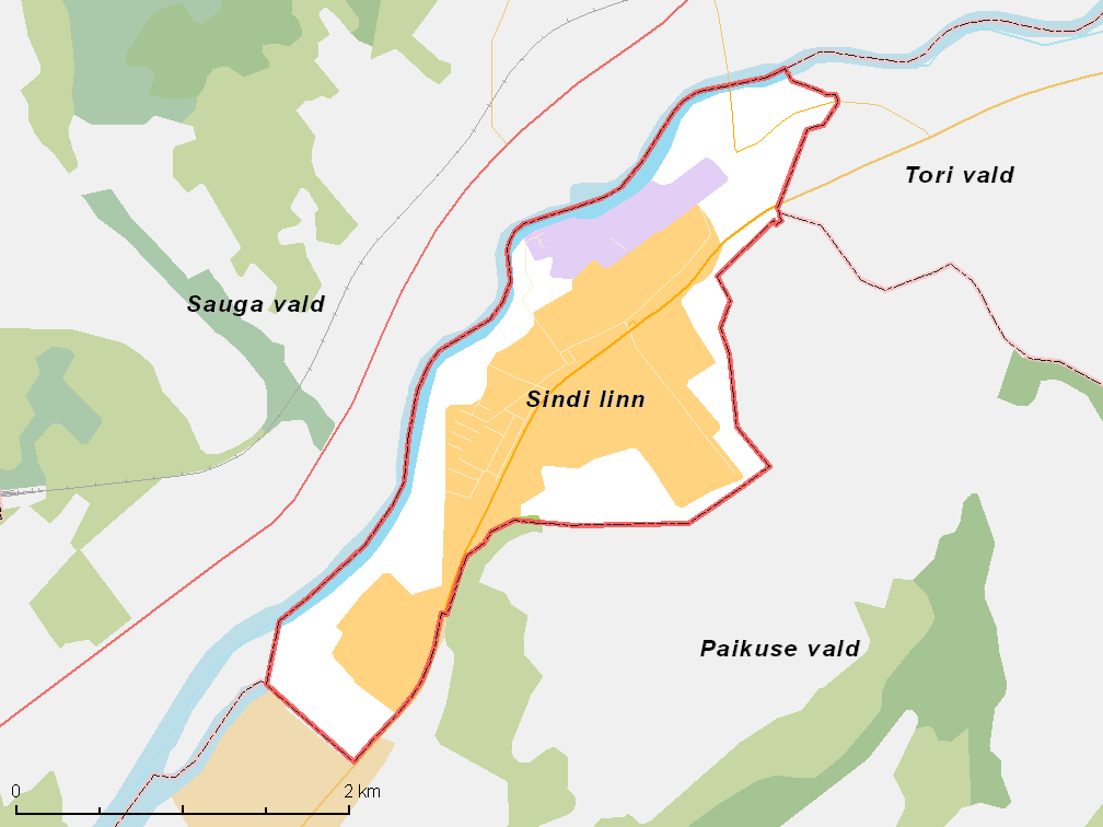 Map of municipality in Estonia